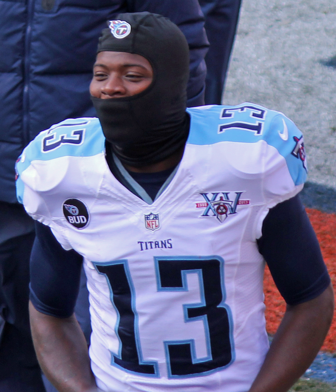 Kendall Wright, a player on the National Football League.